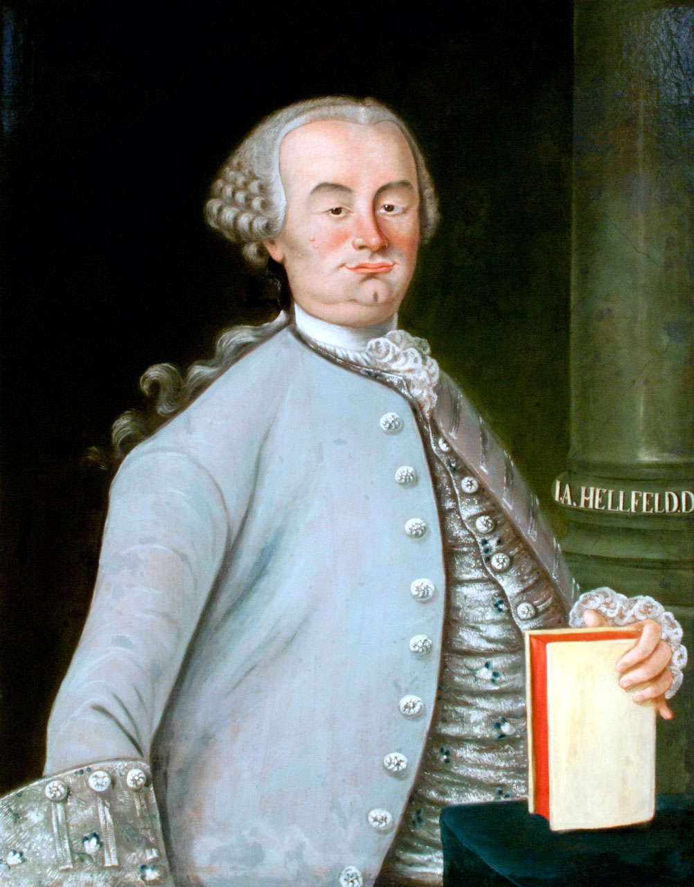 Johann August von Hellfeld (1717-1782) german Jurist